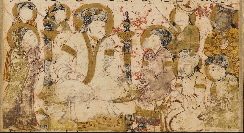 Folio from a Tarikhnama (Book of history) by Balami